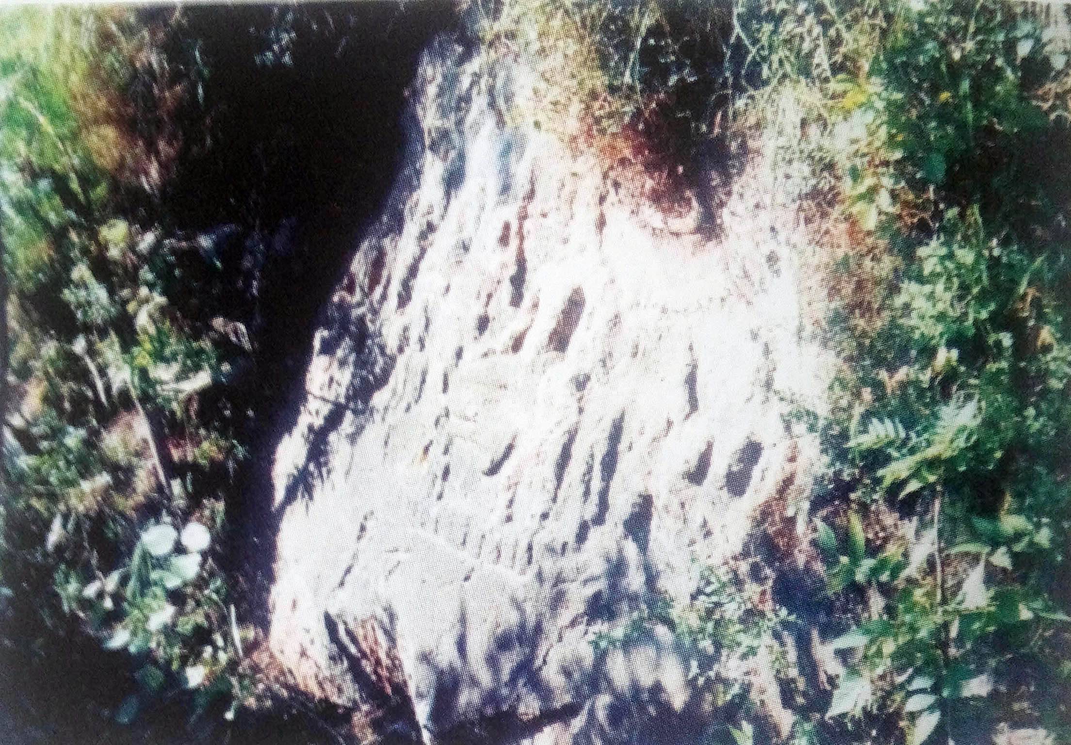 Buddhist Rock Carvings in Manglawar